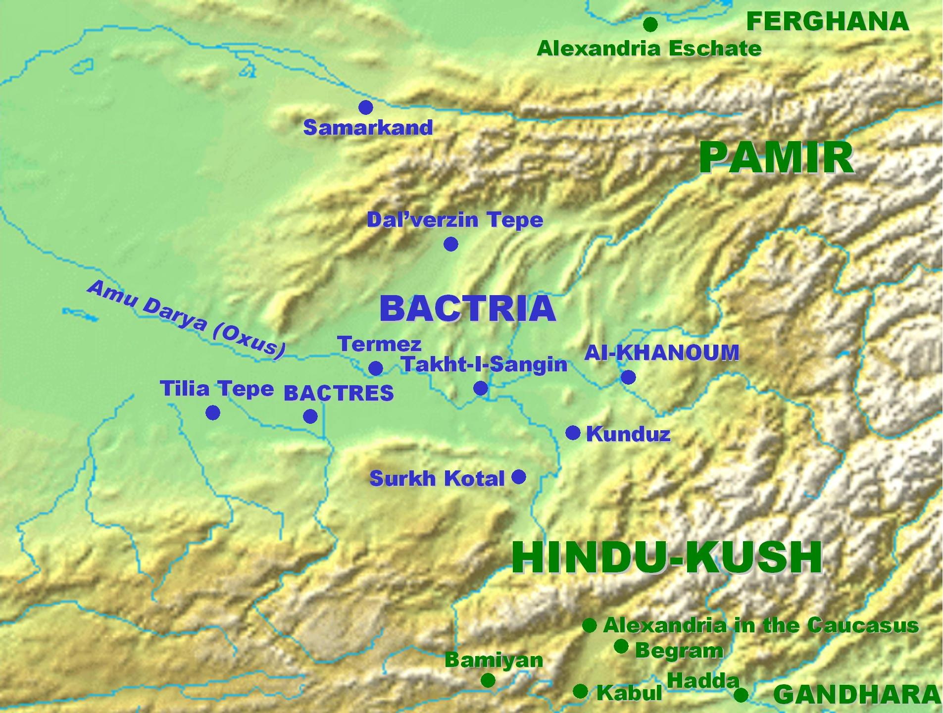 Map of Bactria.